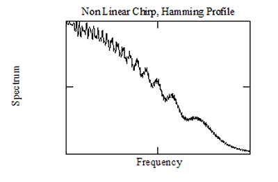 A plot of a spectral response of a chirp pulse, shaped by a non linear sweep, to give a Hamming profile Other information To be linked to the article "Chirp"